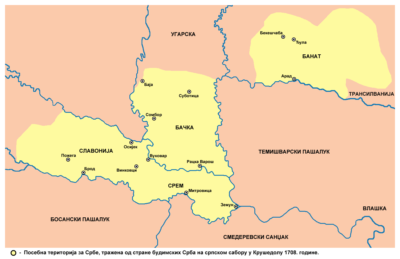 Separate territory for the Serbs, demanded by the Serbs from Ofen (Buda) at the Serb assembly in Krušedol in 1708.